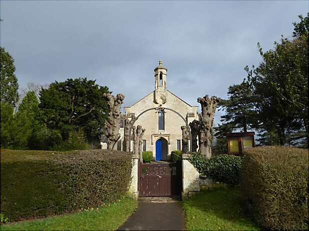 Christ Church, Worton: March 2018